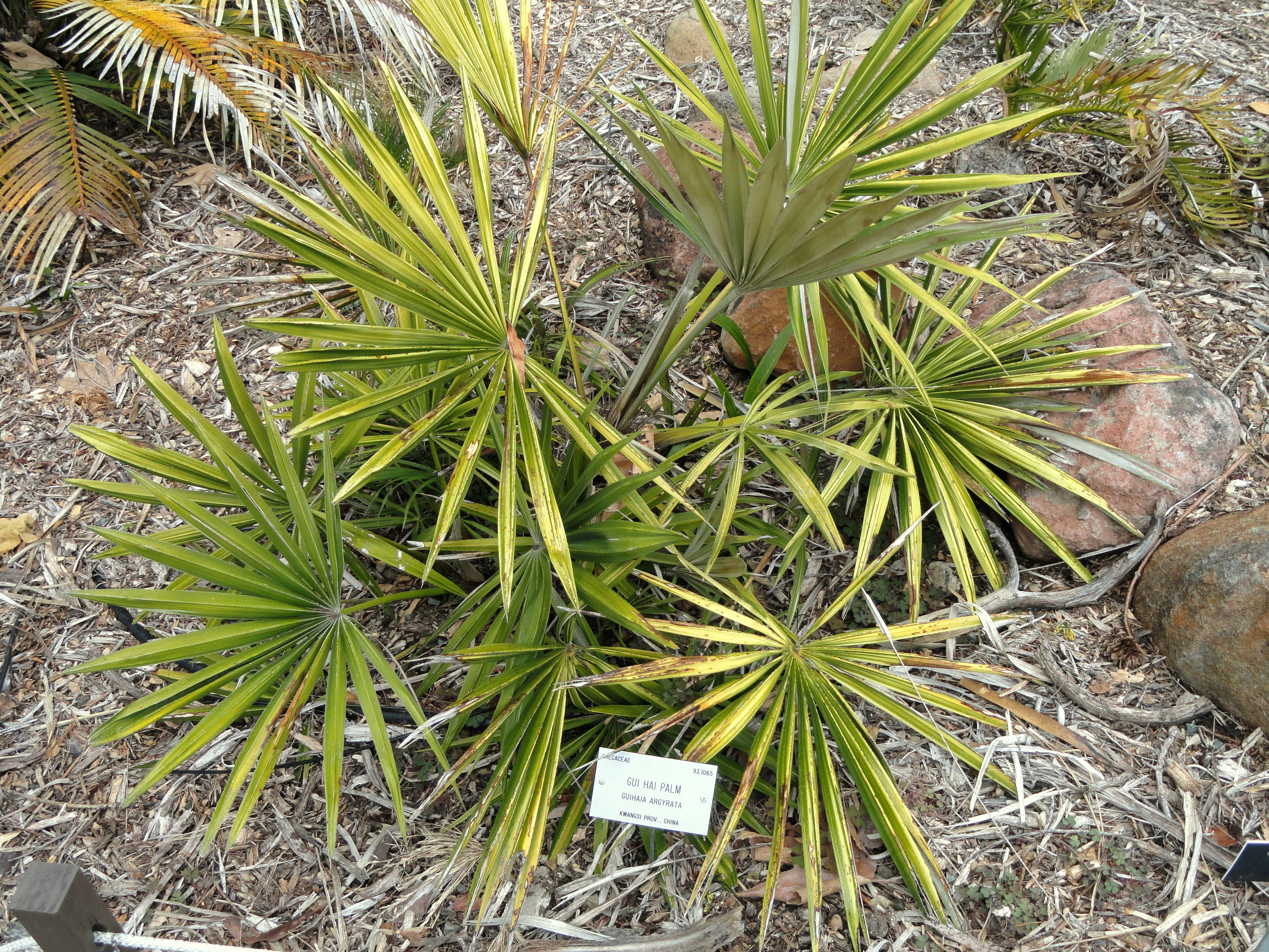 Guihaia argyrata specimen in the University of California Botanical Garden, Berkeley, California, USA.